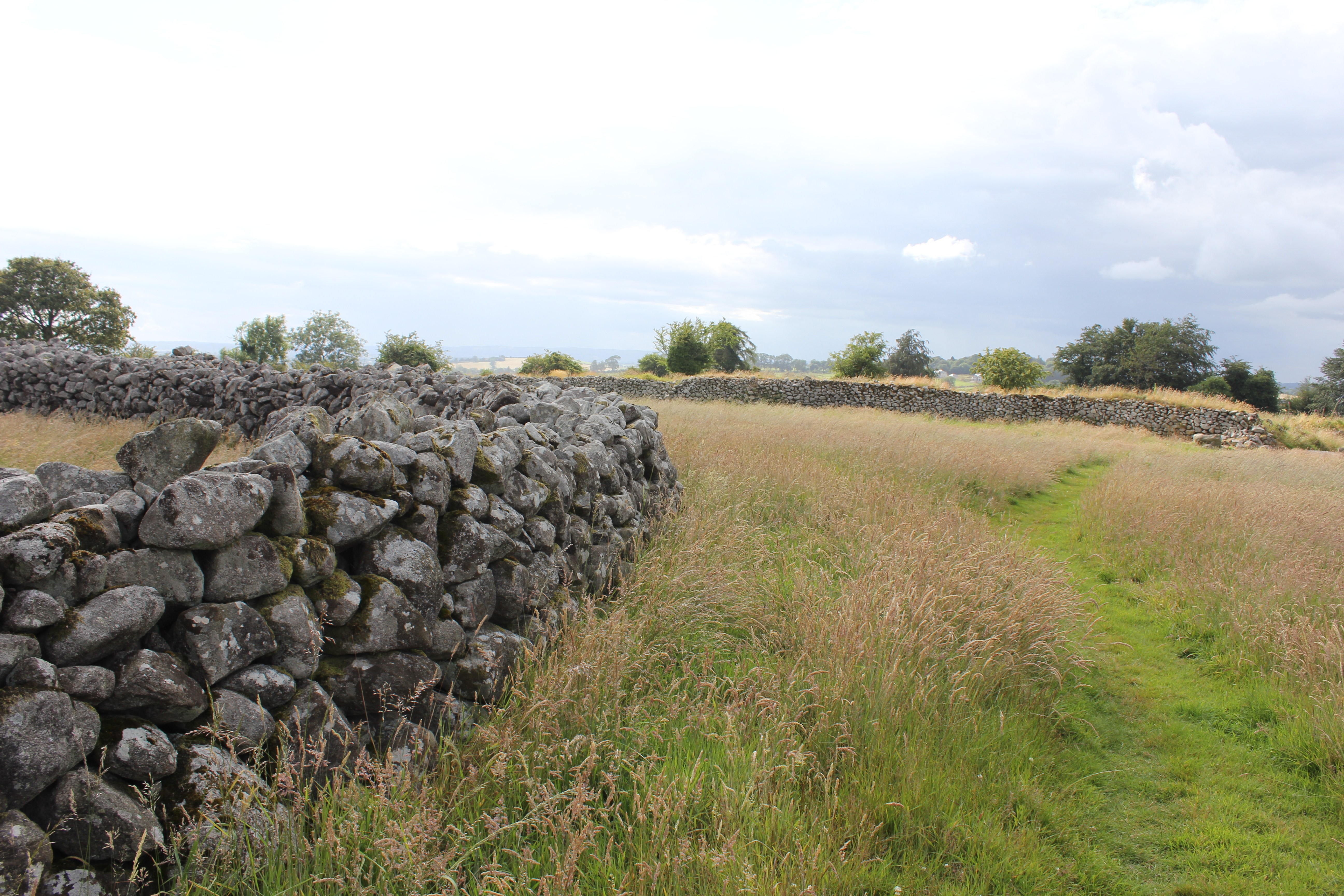 Rathgall Hill Fort